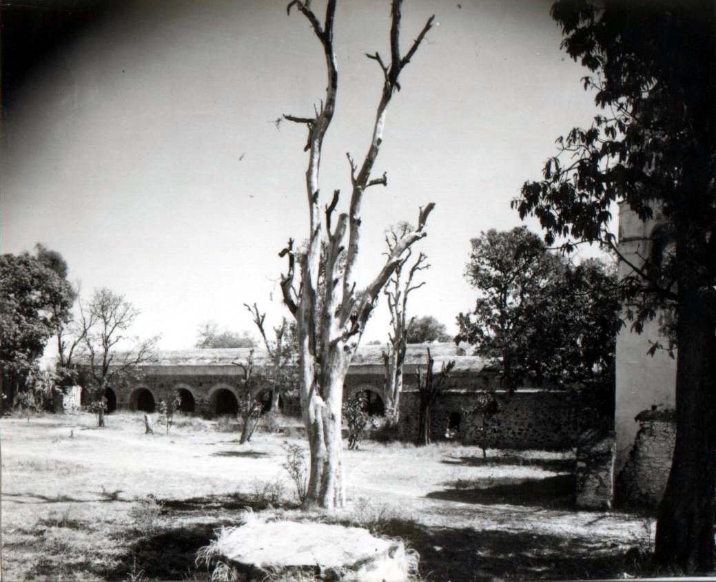 La casa y la capilla de la hacienda